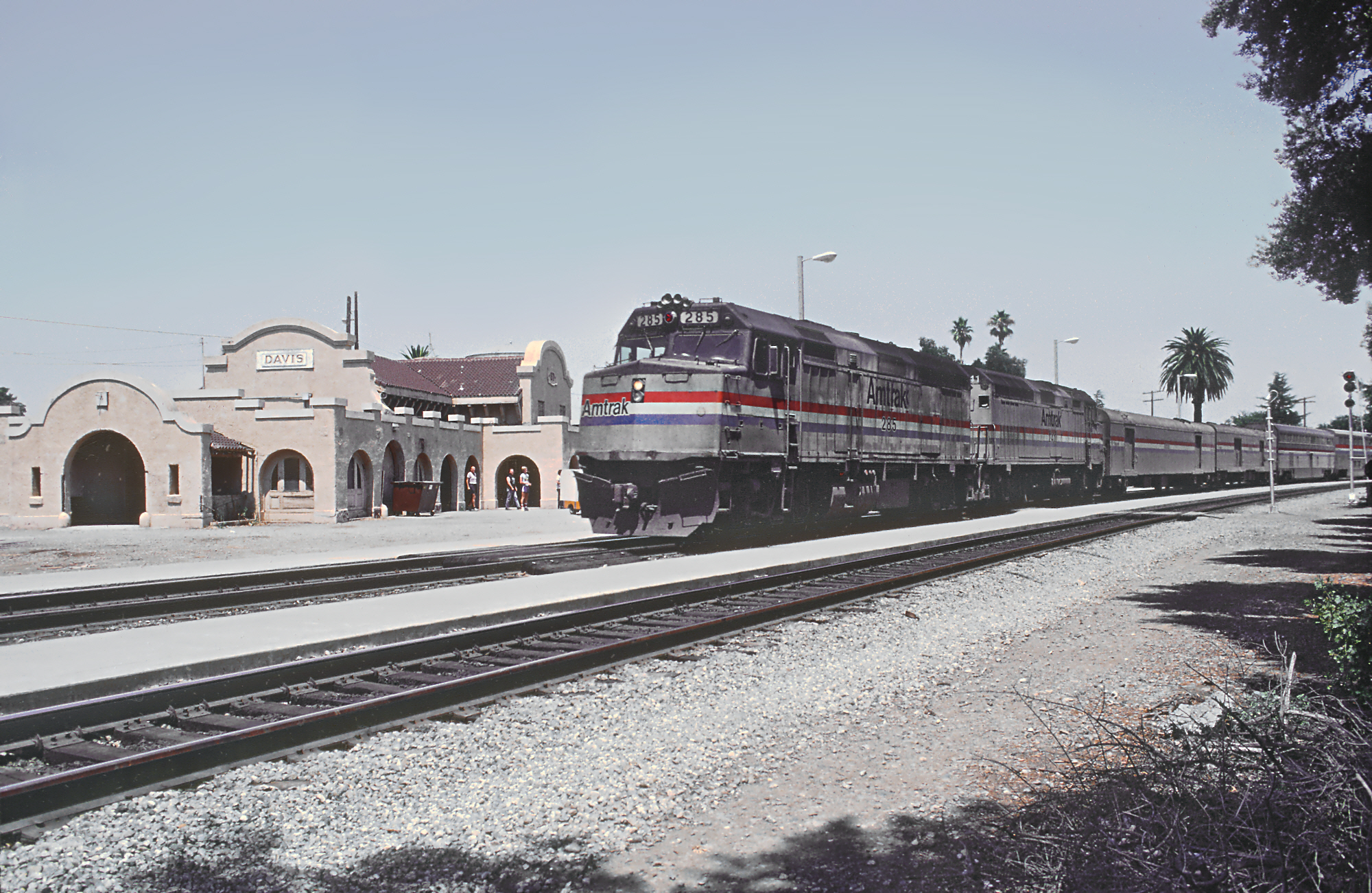 A Roger Puta Photograph This file comes from the Roger Puta collection, which passed to Mel Finzer. They were scanned and posted by Marty Bernard, are in the Public Domain. Attribution to "Roger Puta" is not required for a PD image, but should be done as a matter of courtesy to a major Commons contributor. Mel Finzer, the heirs of this work's copyright holder (usually the creator) have released it into the public domain. This applies worldwide. In some countries this may not be legally possible; if so: The heirs of the creator grant anyone the right to use this work for any purpose, without any conditions, unless such conditions are required by law. See This work is free and may be used by anyone for any purpose. If you wish to use this content, you do not need to request permission as long as you follow any licensing requirements mentioned on this page.